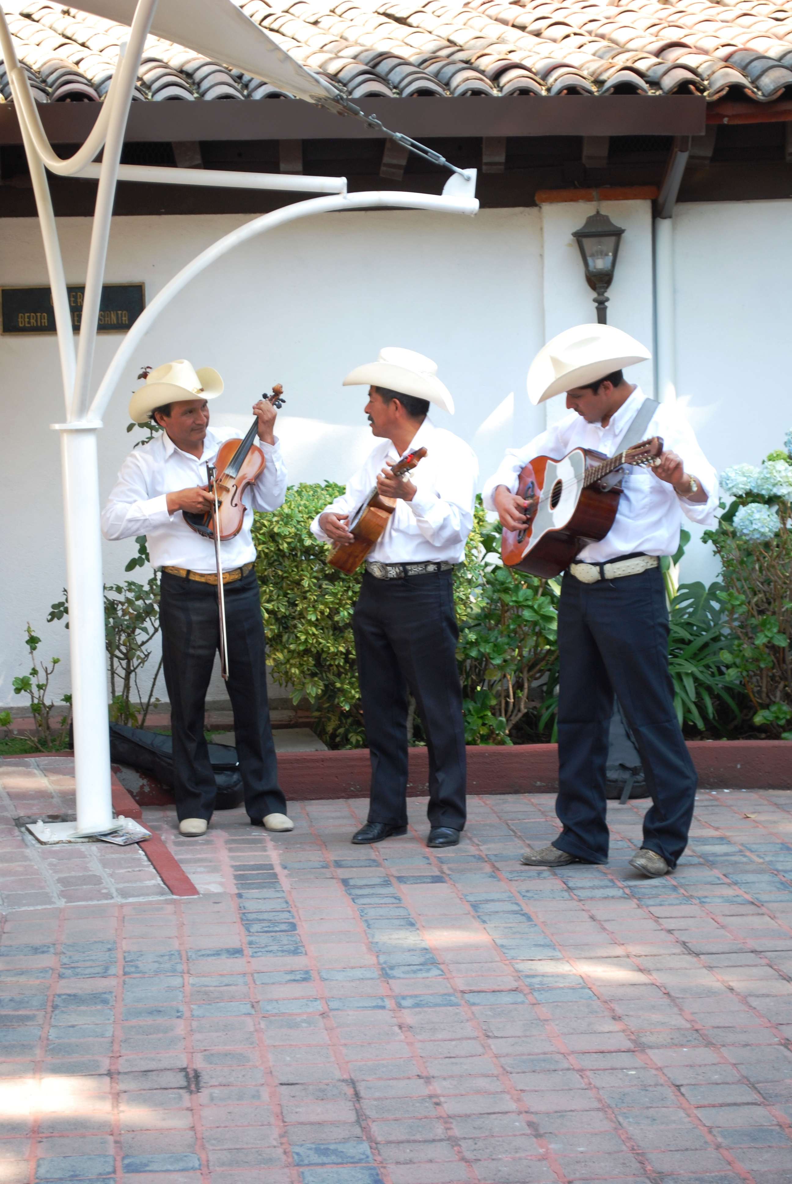 Three musicians playing Huapango music (from Veracruz) at the Museo Nacional de Acuarela in Coyoacan, Mexico City